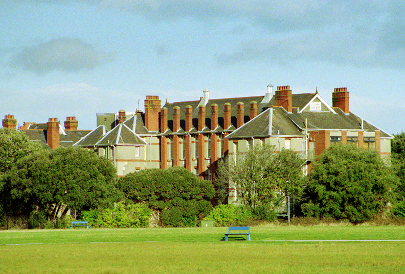 Royal Hamadryad Hospital, Cardiff Docks, opened in 1905 as a Seamans' hospital.